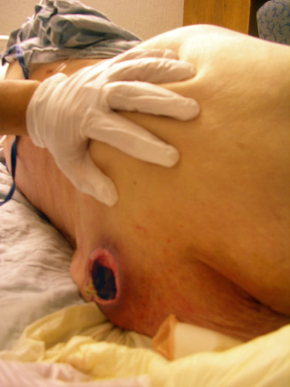 A photo of a stage IV pressure ulcer with hand in frame to show relative size.